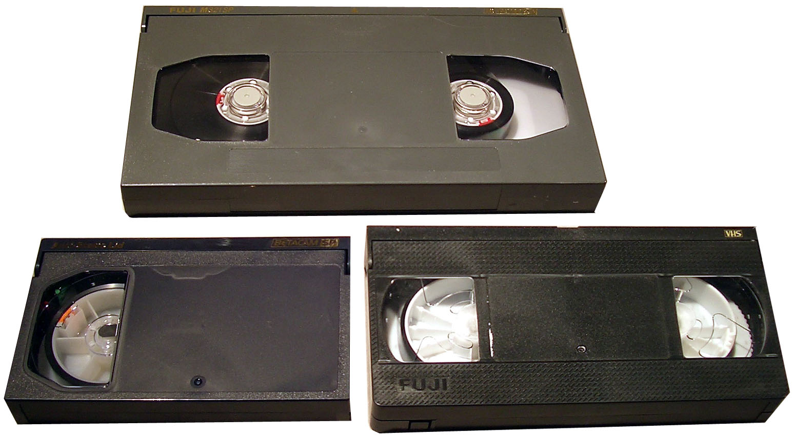 Two Betacam SP tapes (L and S) and a VHS tape for size comparison. Photo taken by grm_wnr on day of uploading.